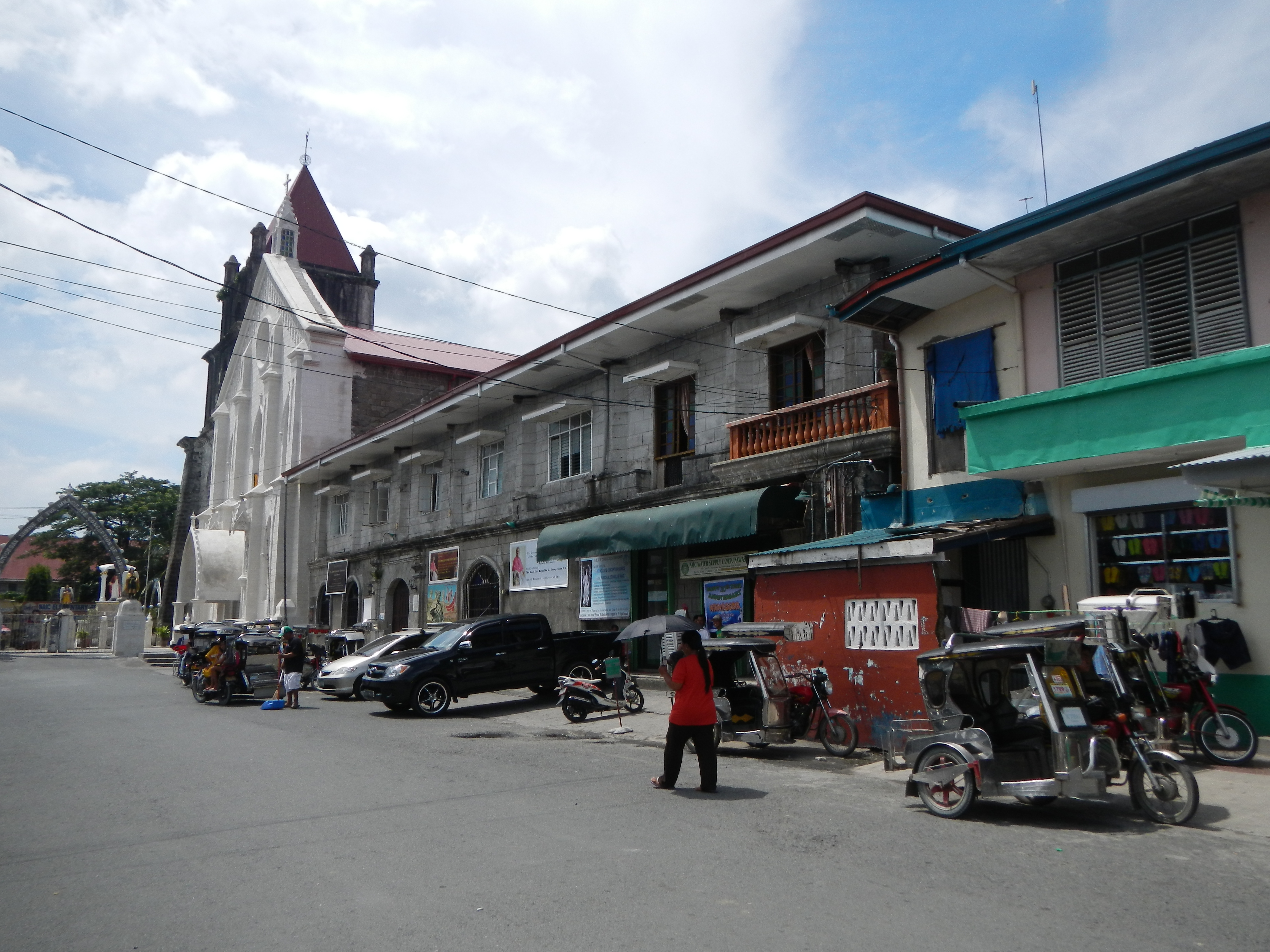 Old Municipal Town Hall Complex of Naic, Cavite which is now the Halls of Justice: Regional Trial Court and Municipal Court, the Plaza, Monuments, Covered Court beside the Naic Church --- Naic, Cavite[1] is a first class municipality in the province of Cavite, [2] Philippines. It is just 47 km away from the city of Manila. According to the 2010 census, it has a population of 88,144 people in a land area of 76.24 square kilometers. [3] Coordinates: 14°17'39"N 120°47'57"E [4]G eographical location: Cavite, Region 4, Philippines, Asia geographical coordinates: 14° 19' 13" North, 120° 46' 3" East This place is situated in Cavite, Region 4, Philippines, its geographical coordinates are 14° 19' 13" North, 120° 46' 3" East and its original name (with diacritics) is Naic. [5] [6]